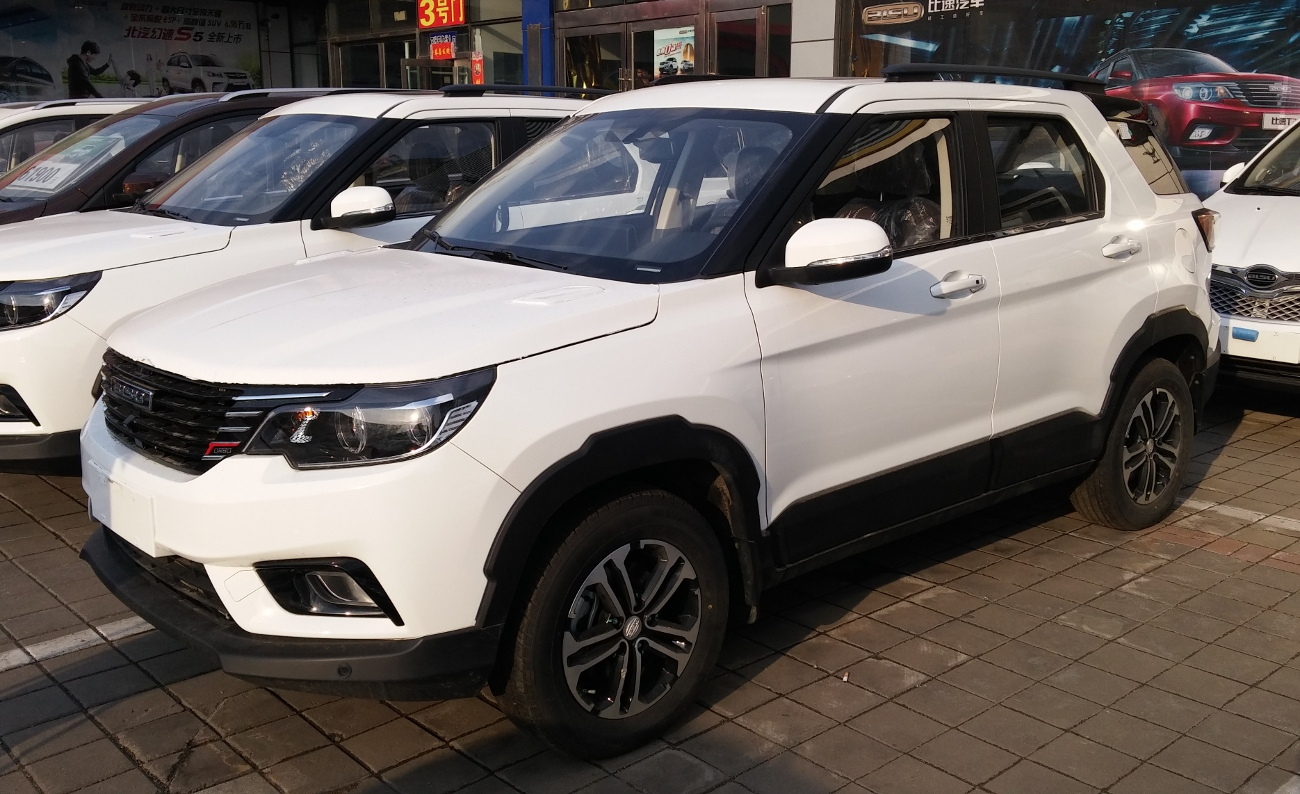 Bisu T3 photographed in Changchun, Jilin province, China.